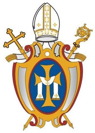 Brasão de armas da Administração Apostólica Pessoal São João Maria Vianney.